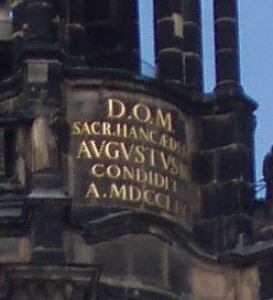 Hofkirche is a Roman Catholic Cathedral in Dresden